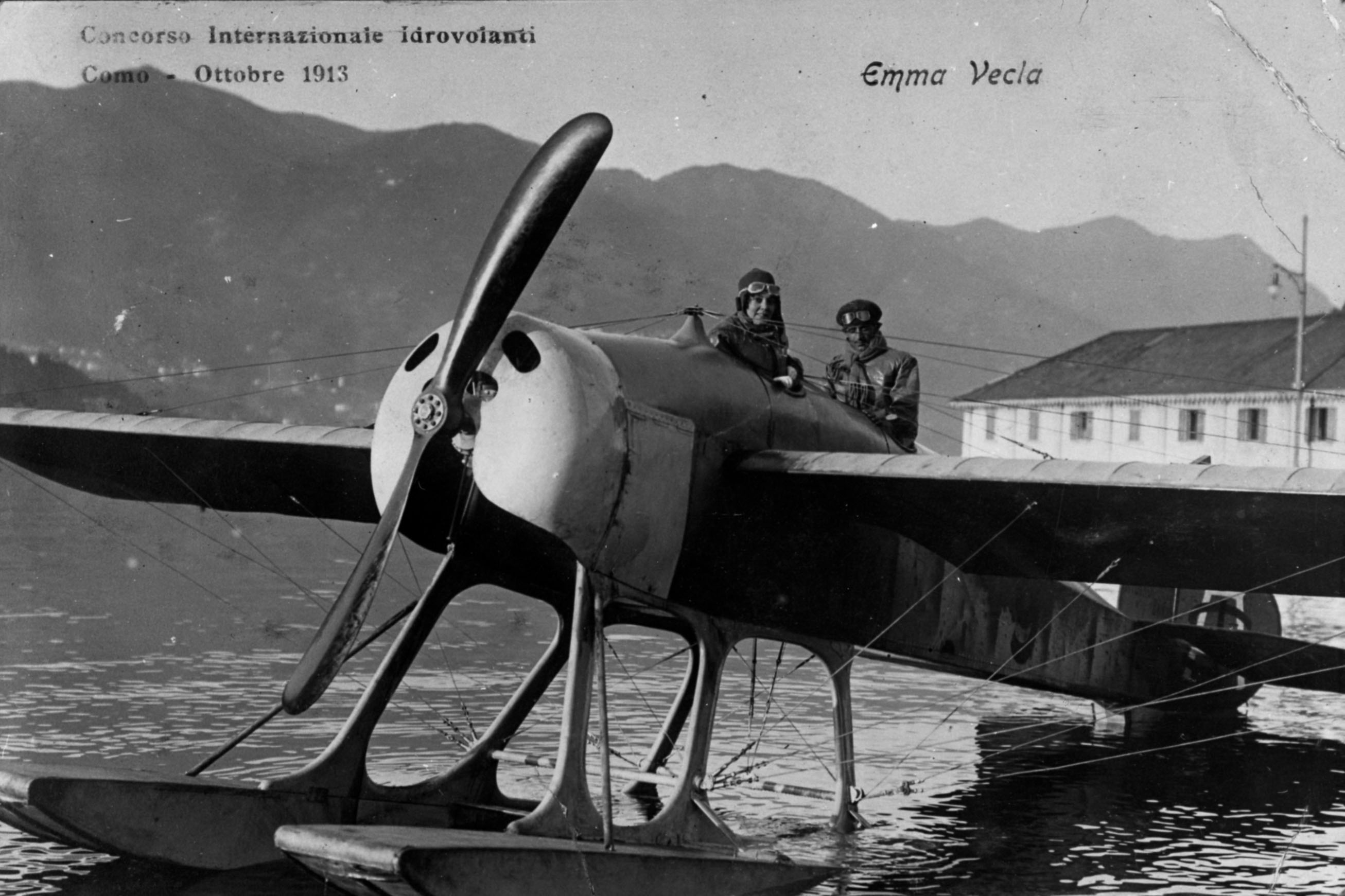 A SIA (Società Italiana degli Aeroplani) 1913 floatplane on Lake Como; built to compete in the Circuito italiano del Laghi 1913.